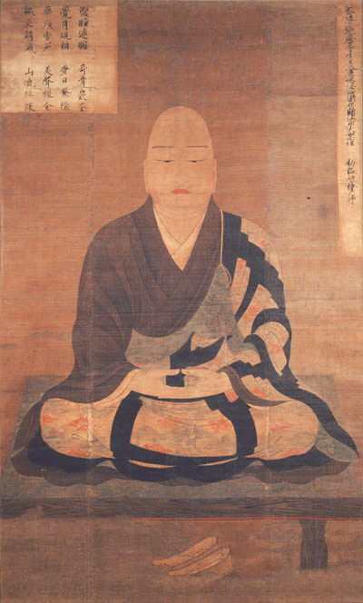 Chisho Daishi, Konzoji, Zentsuji, Kagawa, Japan